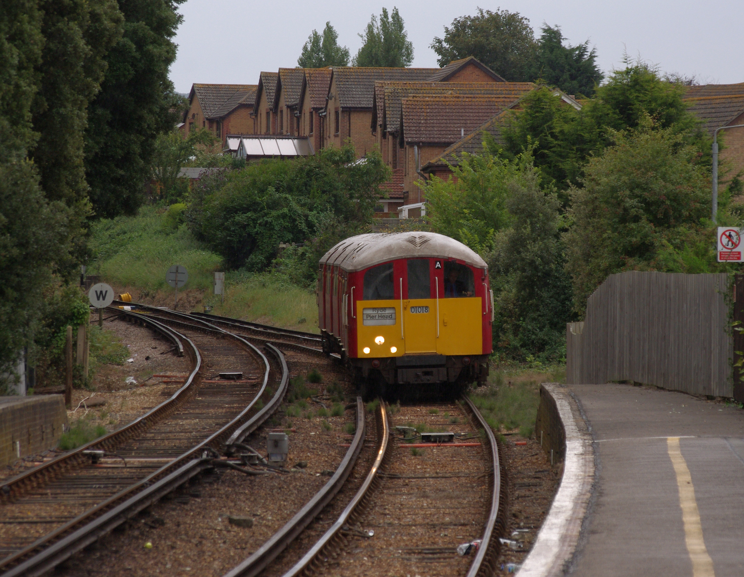 South West Trains class 483 EMU 483008 arrives at Sandown railway station with an Island Line service for Ryde Pier Head.